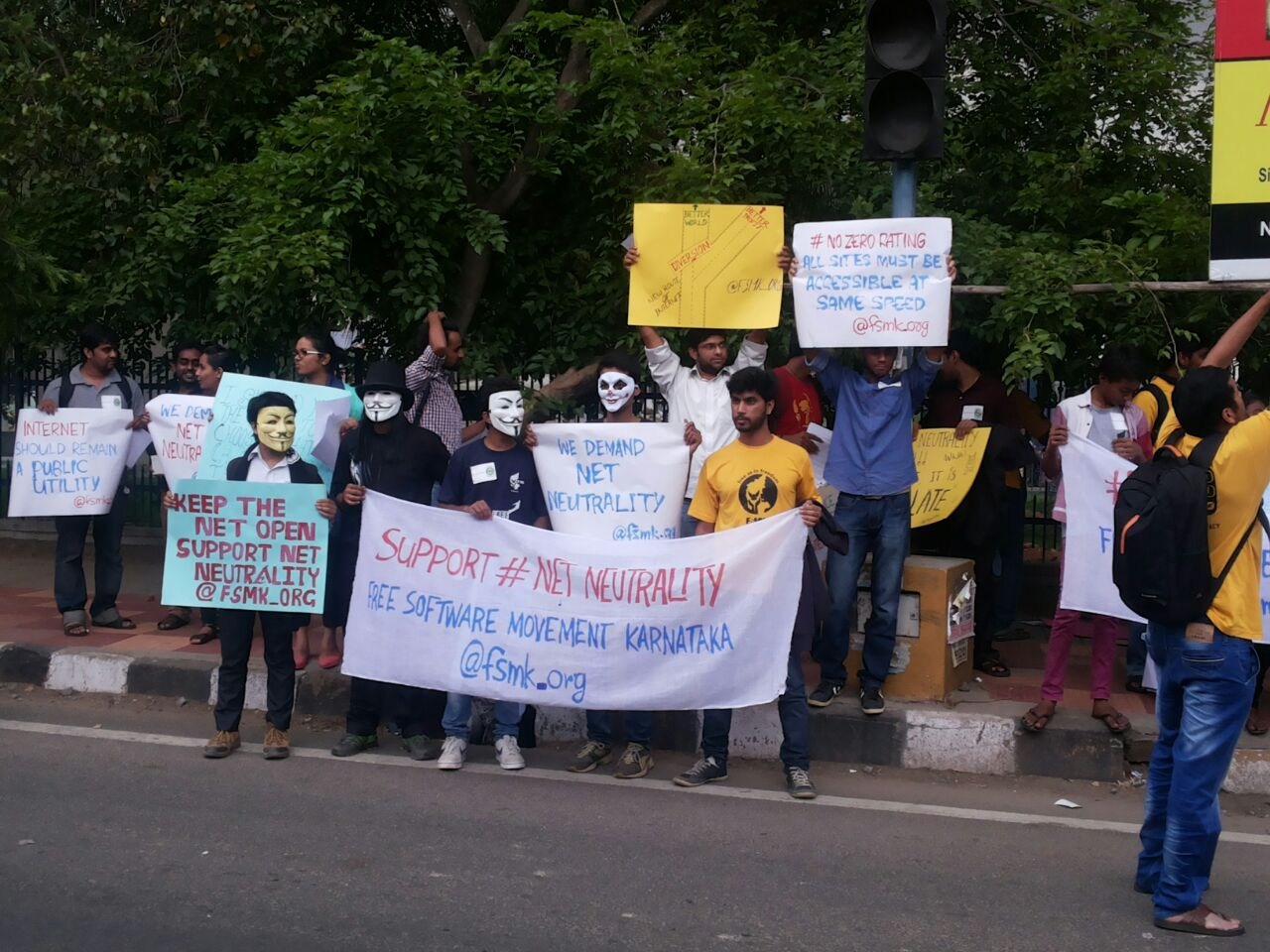 This image was taken on 23rd April during FSMK's walkathon in support of NetNeutrality